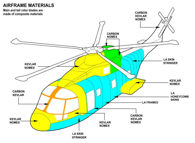 EH101 Merlin drawing with view of Airframe Materials, now known as AgustaWestland AW101